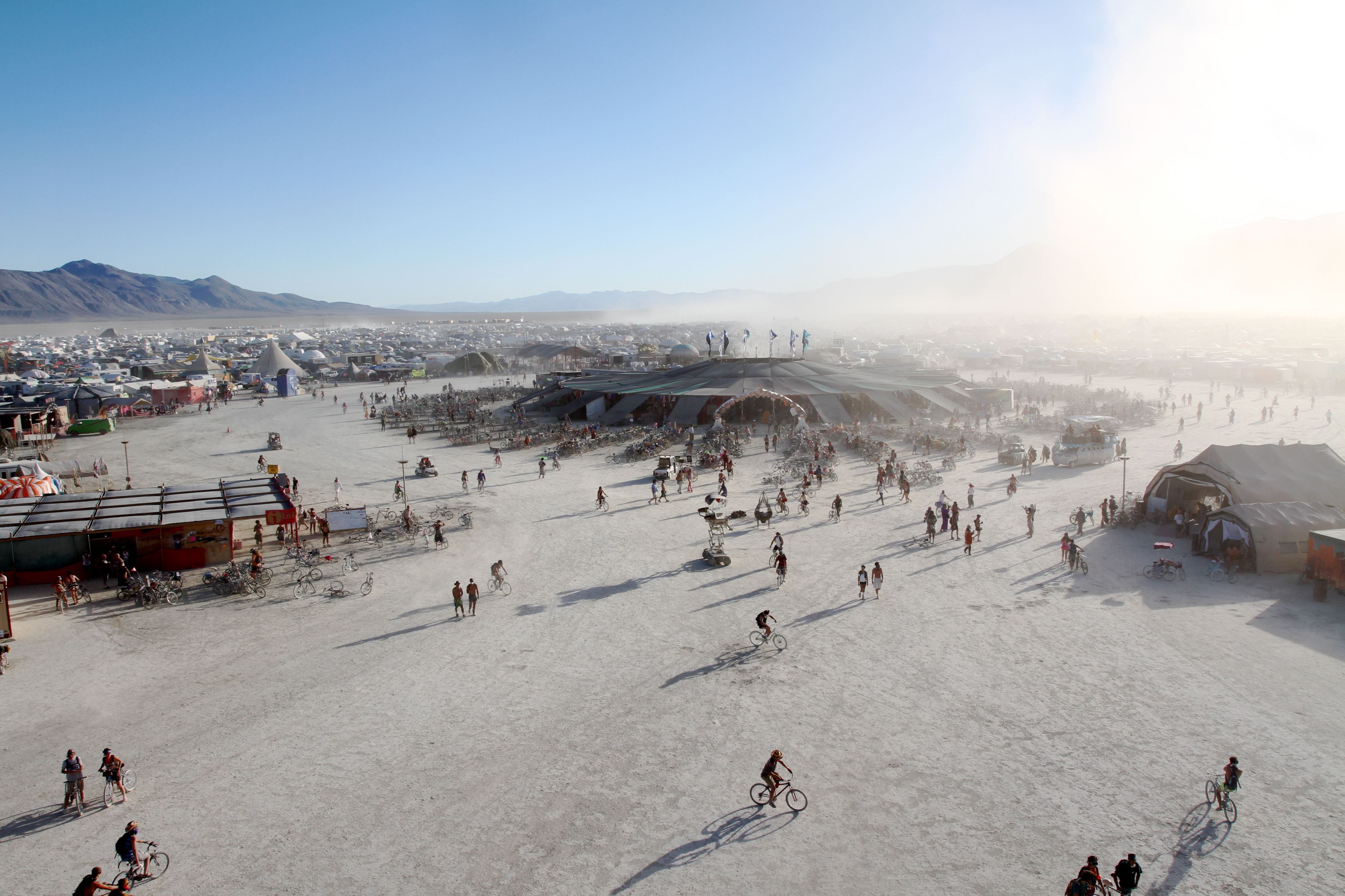 Observing Centre Camp from top of 50' steel tower structure named 'Minaret' by Bryan Tedrick. Photo taken at Burning Man 2010, Nevada, United States.